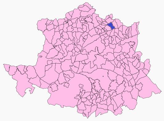 Cabezuela del Valle